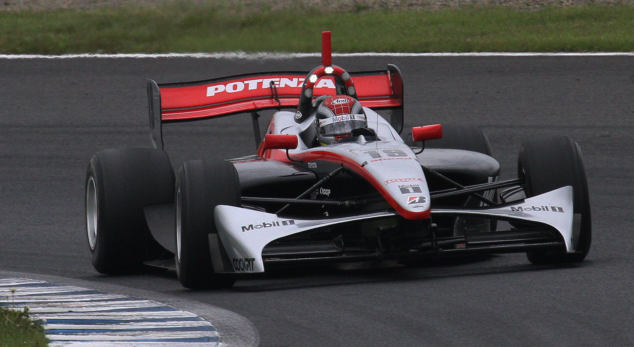 Formula Nippon 2010 Rd.2 Motegi: João Paulo de Oliveira (Team Impul) during the Sunday free practice session.